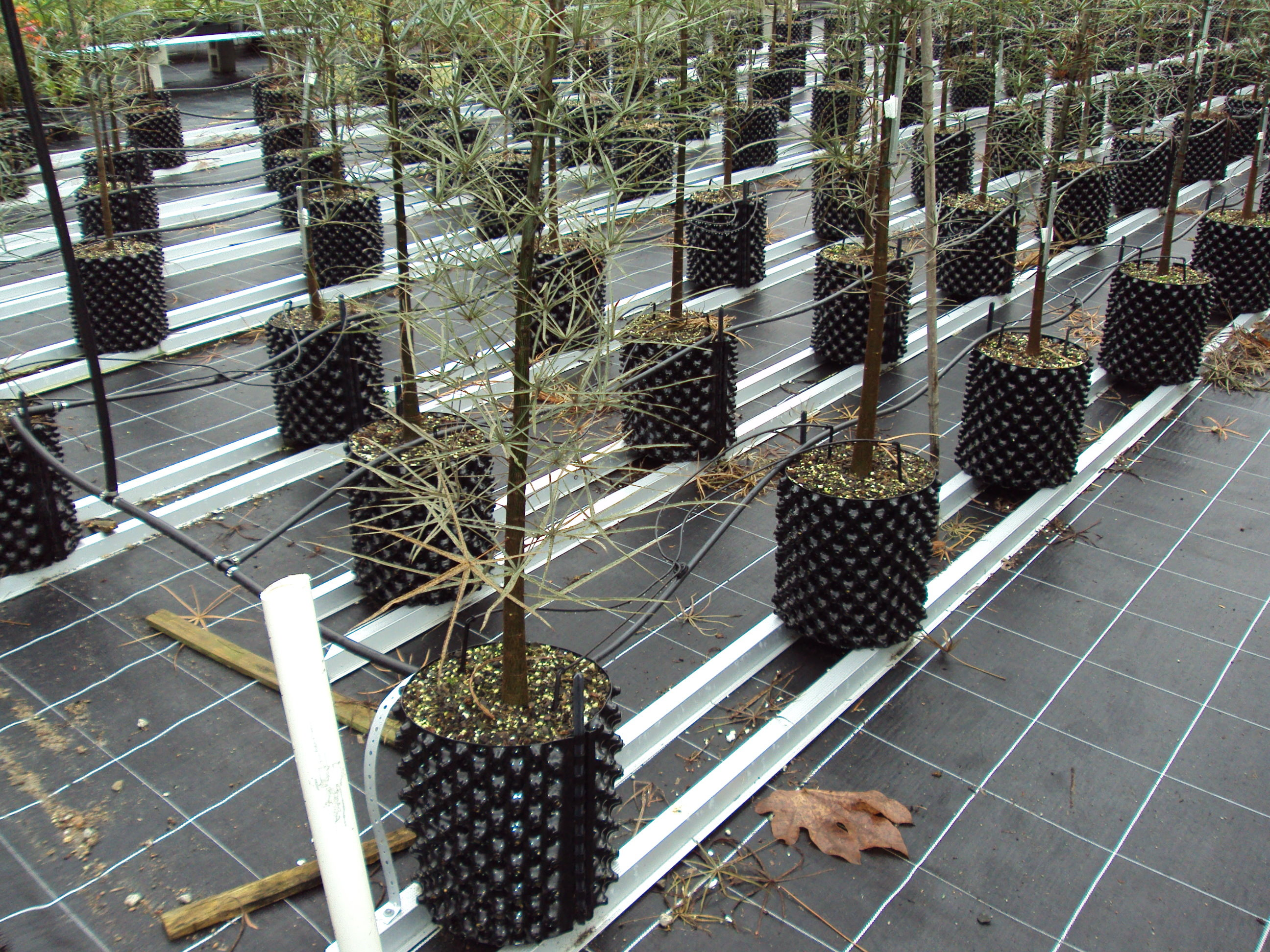 Row of trees in pots that are easily removed that also help prevent root spiraling.